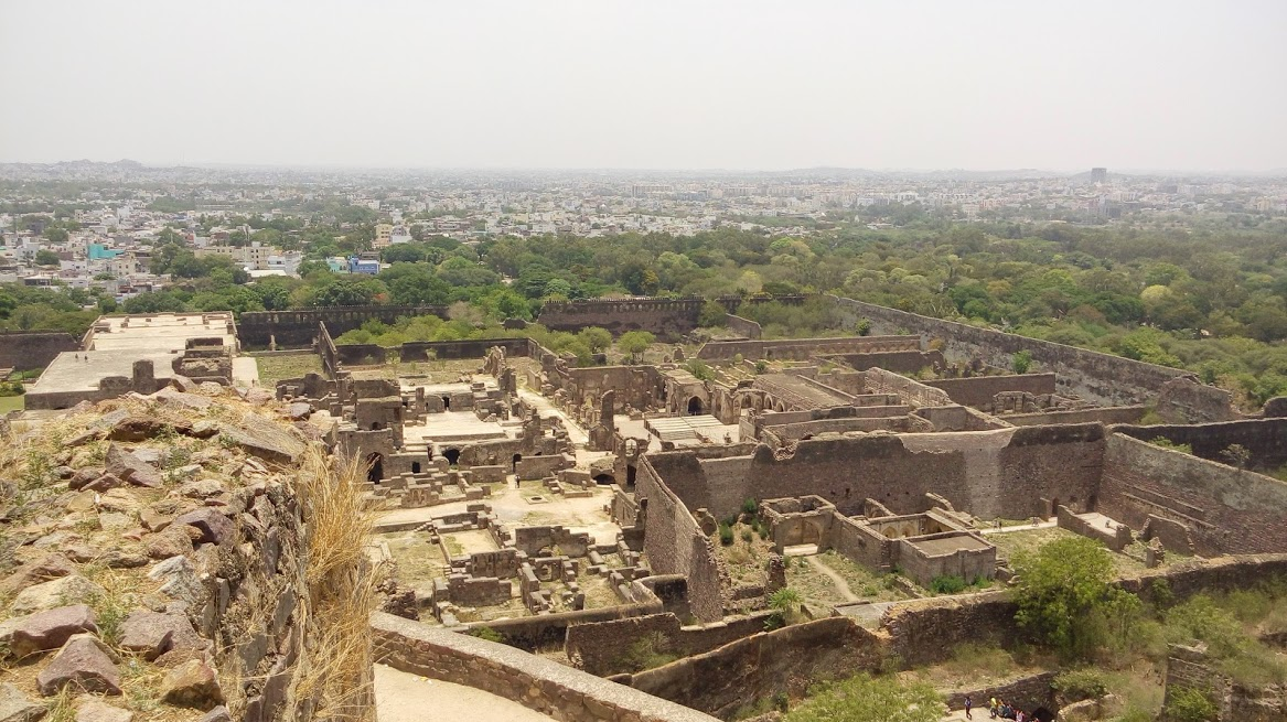 Ruins of the Fort shot my me